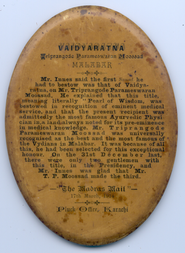 News item from Madras Mail on Vaidyaratna